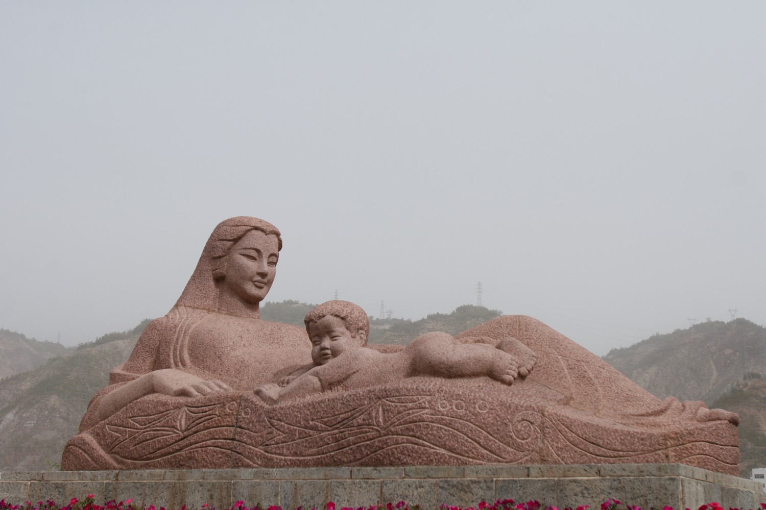 Mother of Yellow River,Lanzhou,China